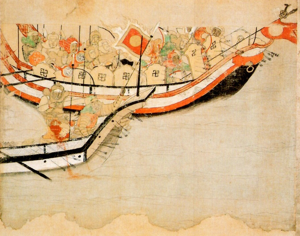 Mōko Shūrai Ekotoba e17